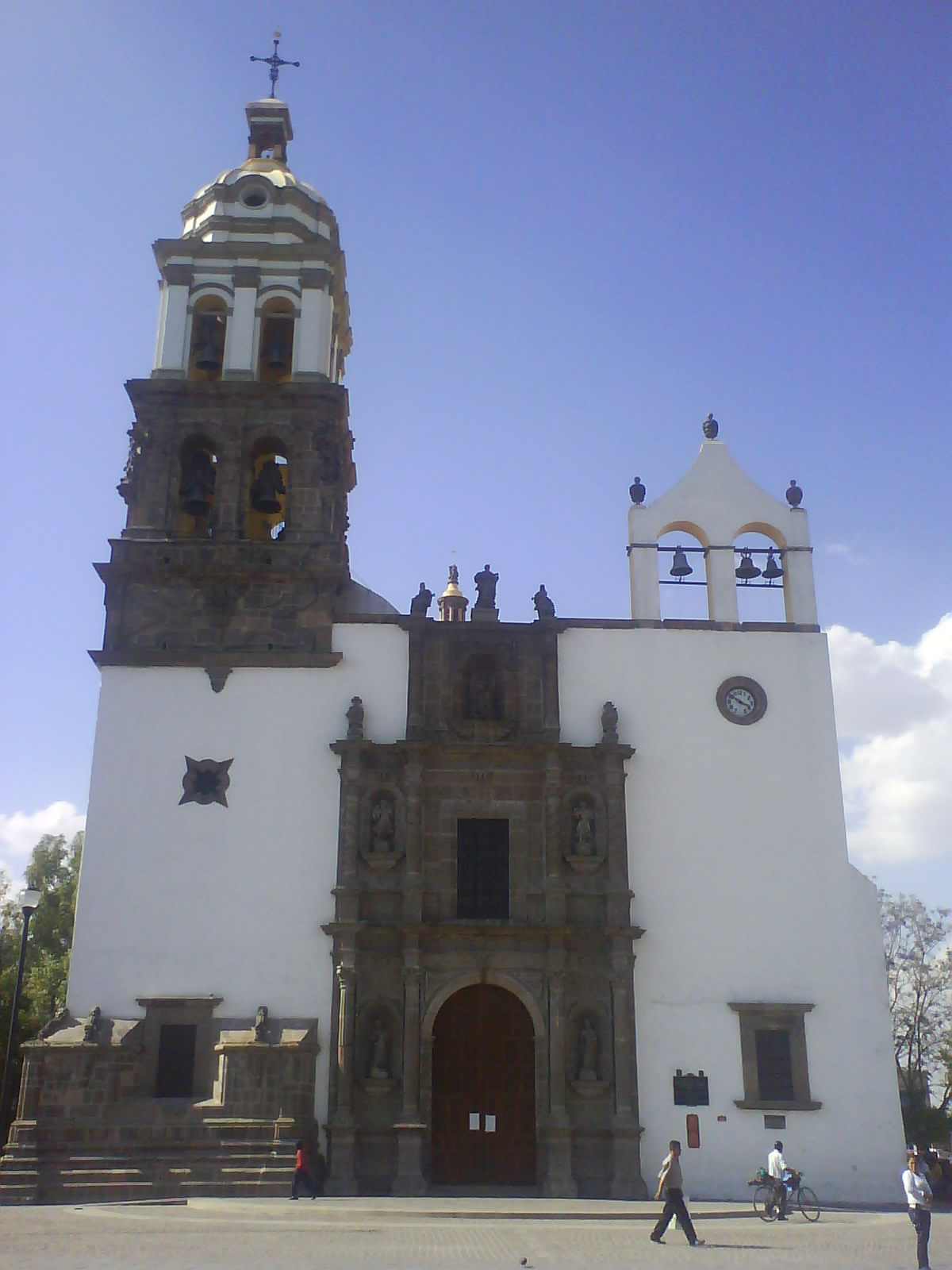 Cathedral of the city of Irapuato, Guanajuato. Mexico. Erigida Like such the day 3 of February of the 2004, by his santidad the papa Juan Pablo II